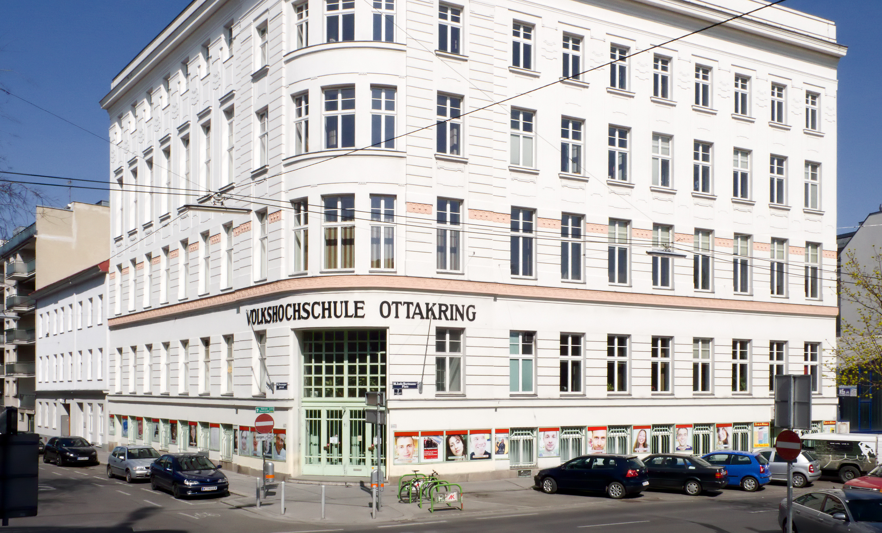 Das Volksheim Ottakring in Vienna Ottakring